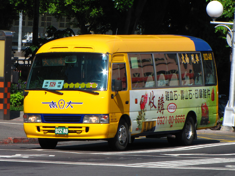 2003 TOYOTA KC-BB58L